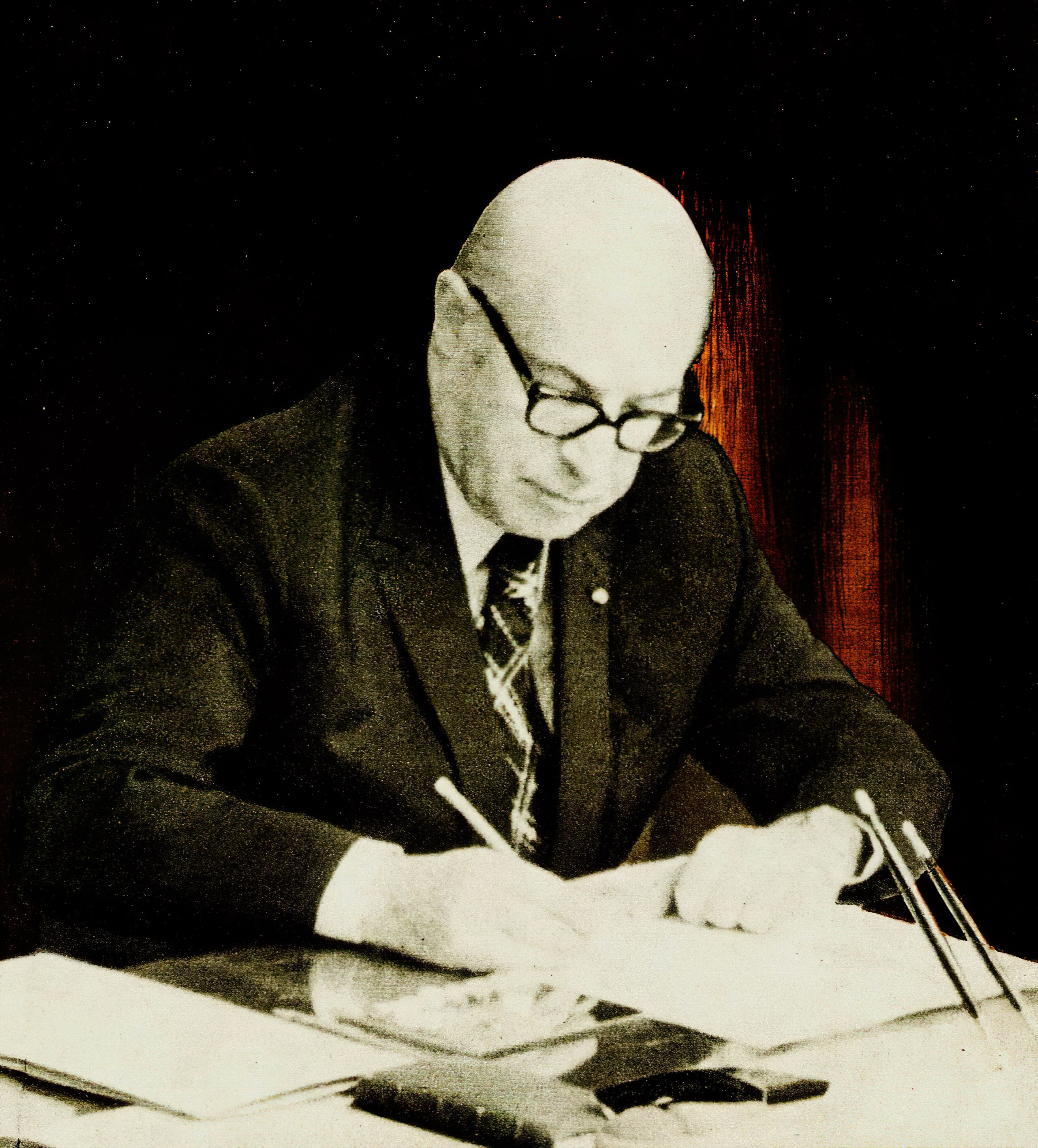 Dr. Shariff Emami